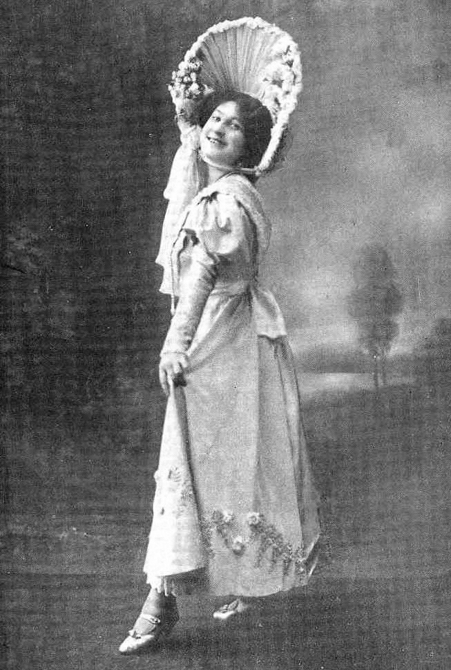 Bella Alten photo